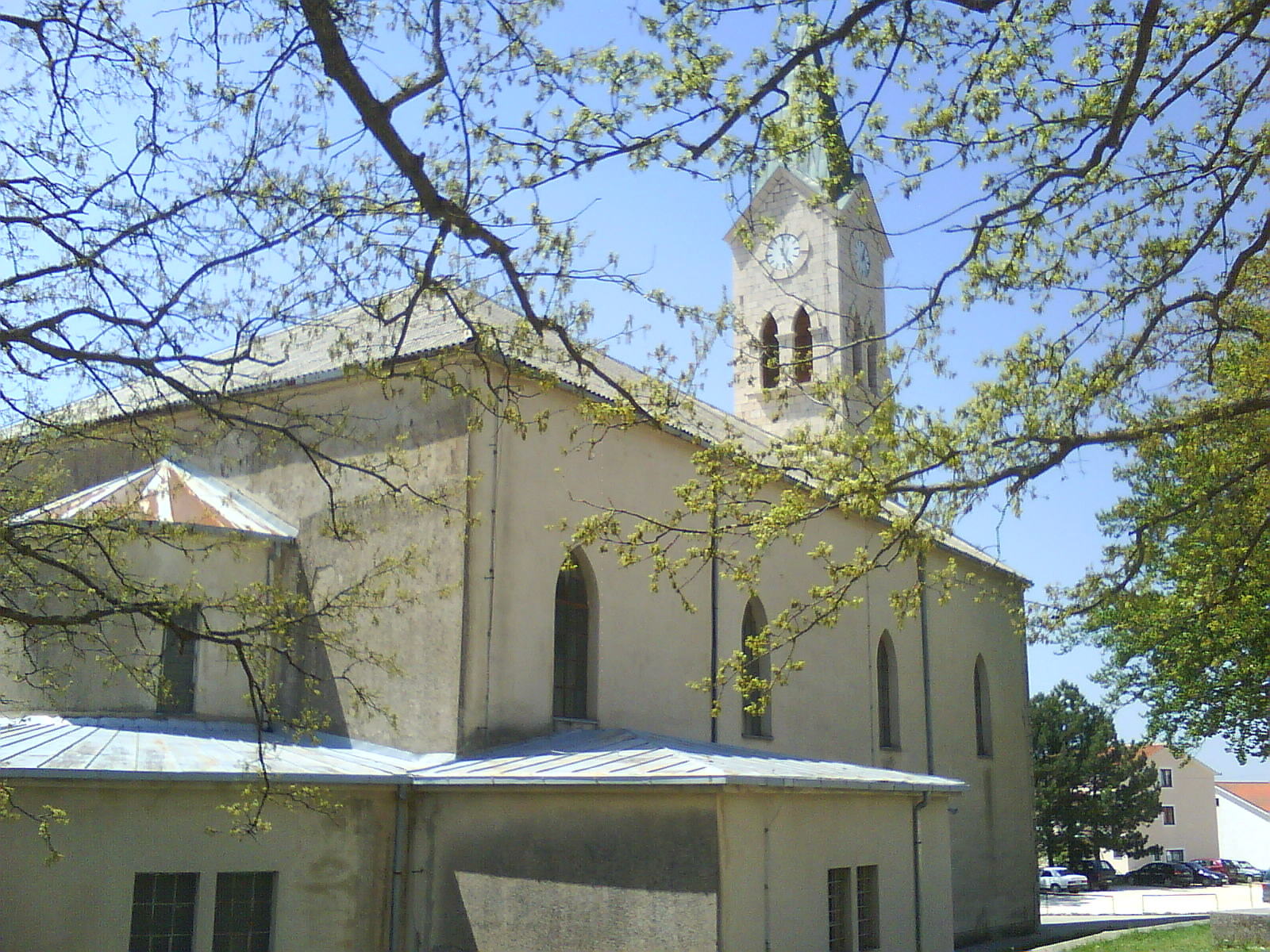 Roman Catholic Virgin Mary church in Posušje